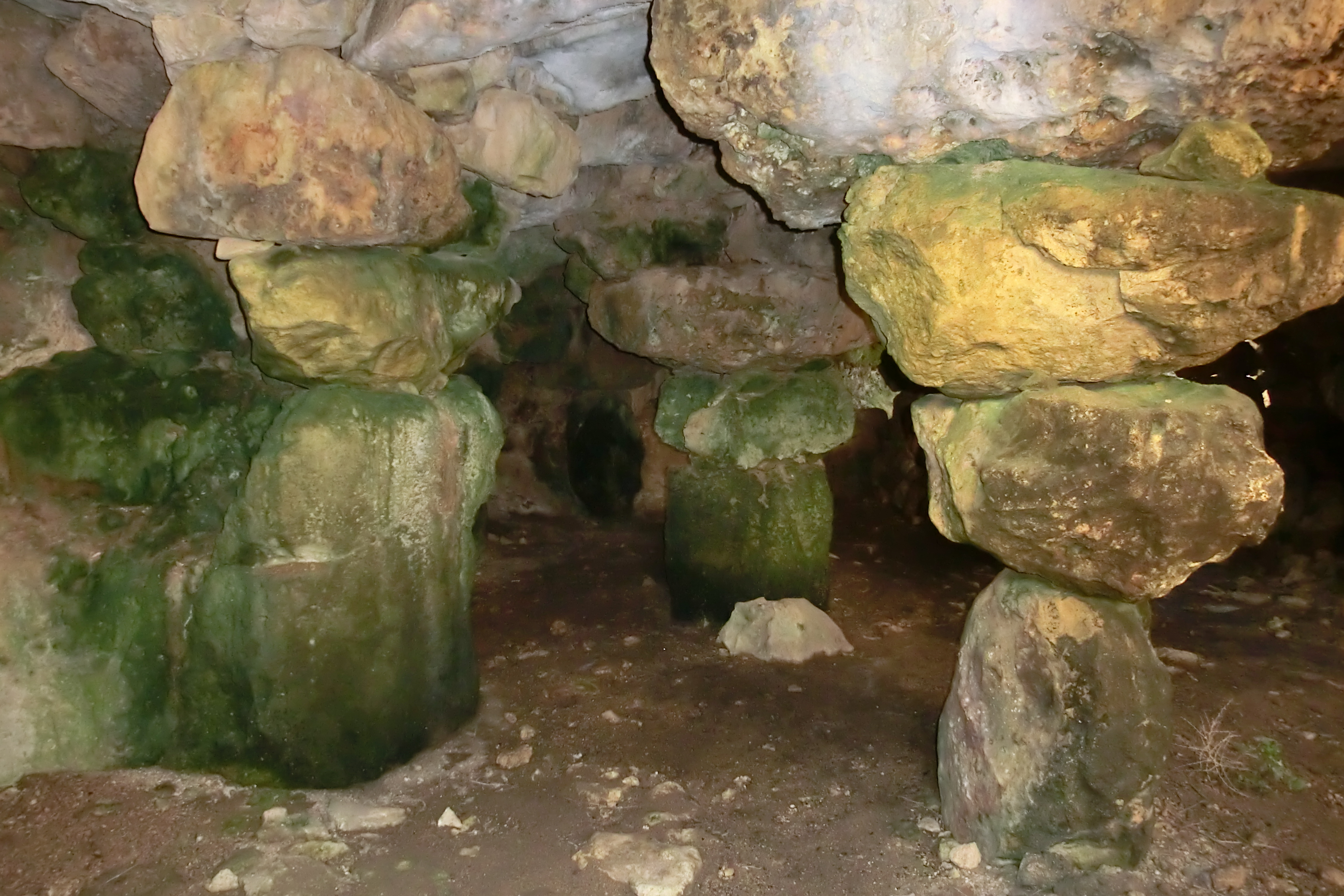 Interior of the Galliner de Madona hypostyle hall, Es Migjorn Gran, Minorca.